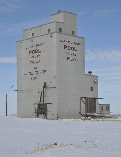 A photograph of the grain elevator in Truax, Saskatchewan. This grain elevator was built in approximately 1964 and was the most modern example of grain elevators in the surrounding area.